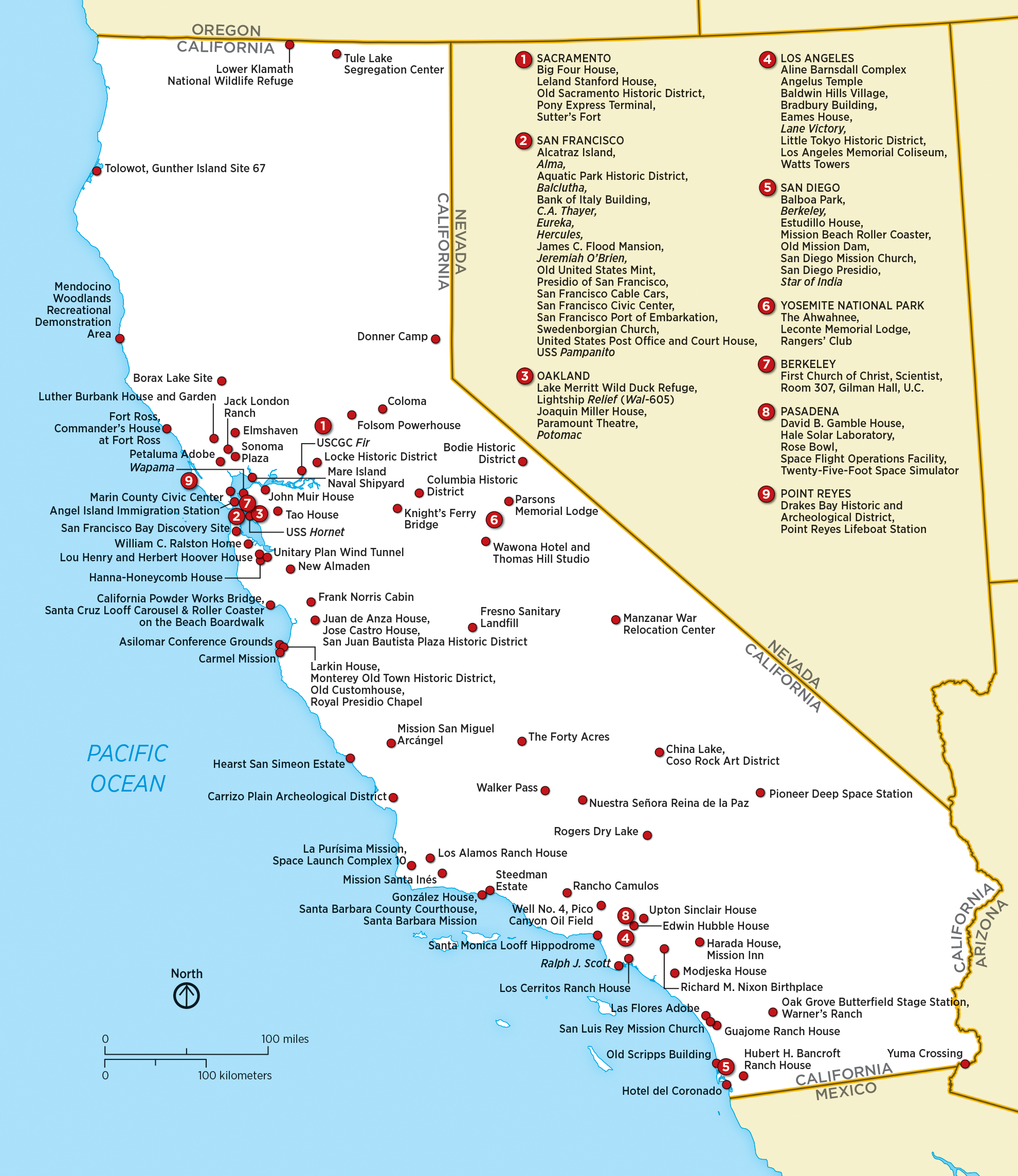 Projection: Azimuthal Equal Area Data (mostly): National Atlas 2015 Sources: Google Maps, NPS